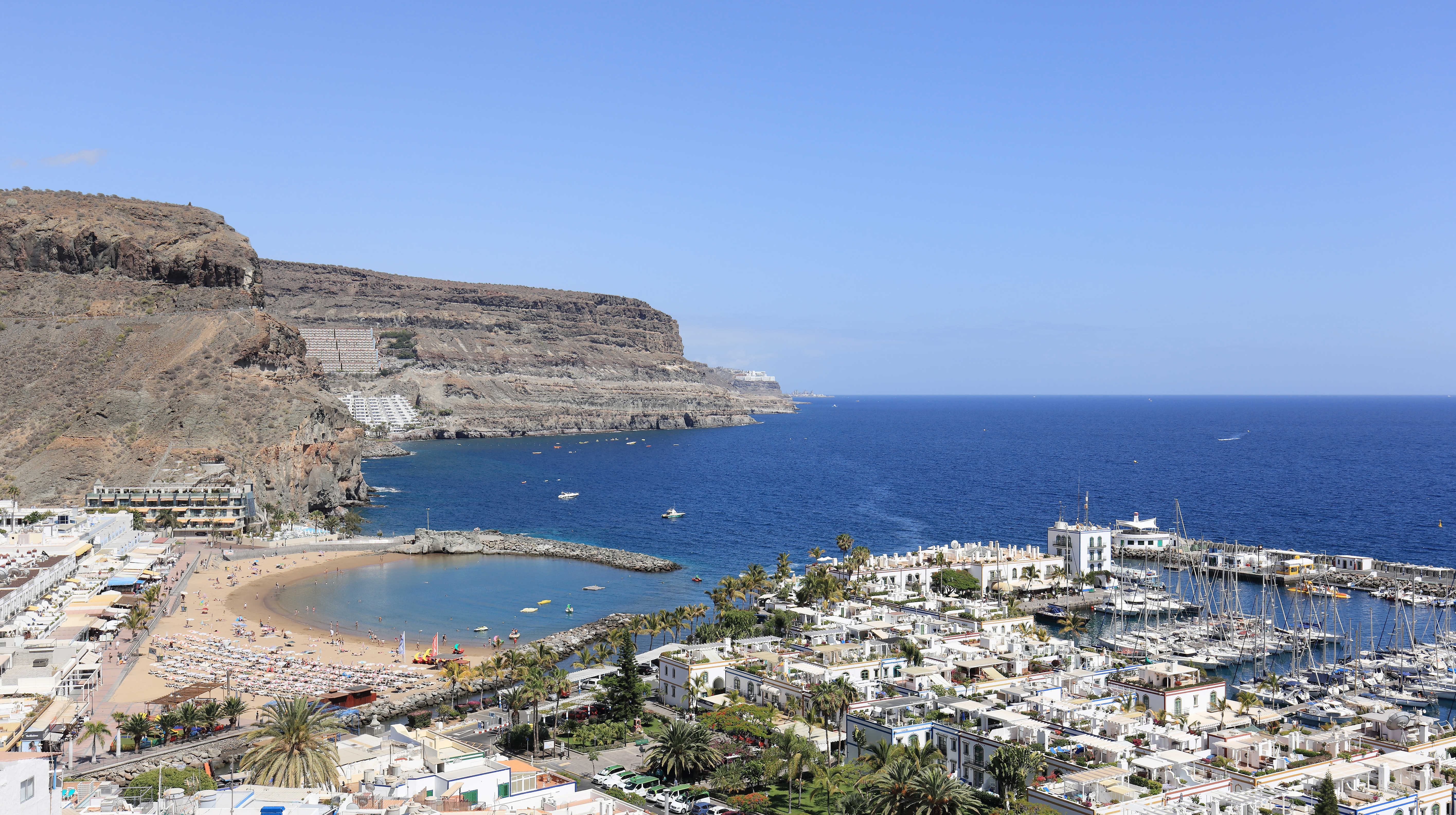 Panorama of Puerto de Mogán, Gran Canaria.